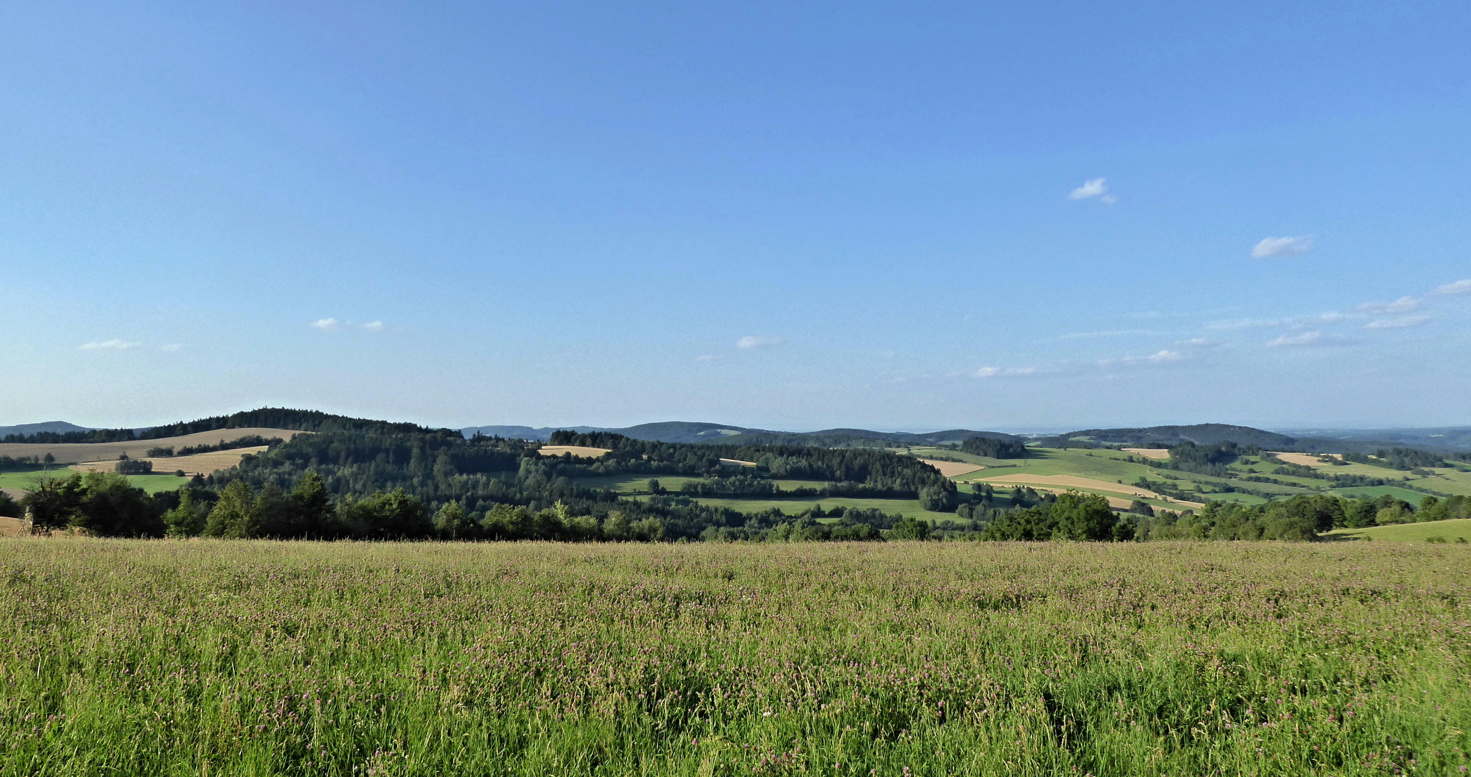 View from the top hill "Metodka" (788 meters above sea level) in the central part of Highlands "Pohledeckoskalská", irregular and rugged shape of the Earth's surface (georelief) and in the range of 395 to 822 meters above sea level forming the geomorphological district. Photo-location: Photo location: Czechia, Vysočina Region, municipality Věcov, Highlands "Pohledeckoskalská". The hill lies on the cadastral area of the municipality "Věcov", in the top part there is a trail of the nature trail "Metodka".